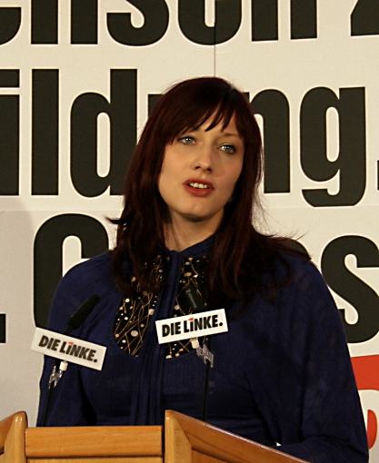 Germany politician of Saxony, Die Linke